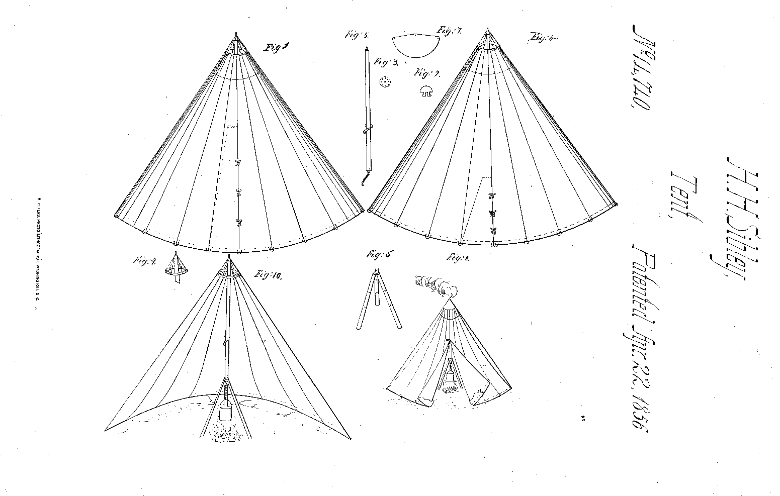 Patent #14740 of teh United States Patent Office, April 22, 1856.Dinkytown 06:17, 10 November 2007 (UTC)